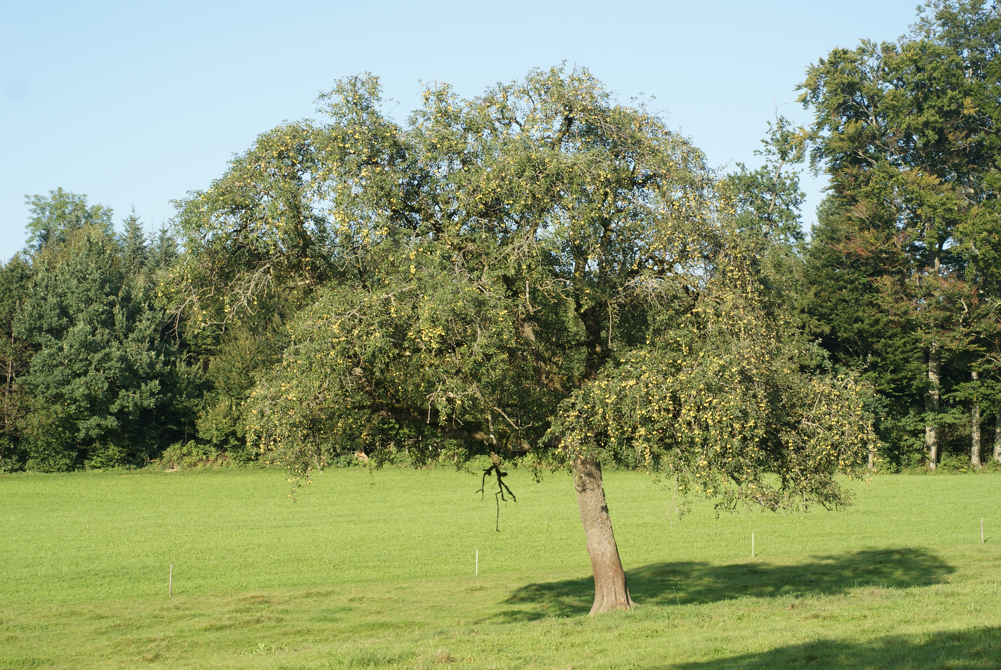 Tree of the Swiss pear variety "Theilersbirne".